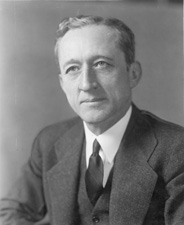 Carl Hatch (1889 - 1963), Democrat from New Mexico , served in US Senate 1933-1949